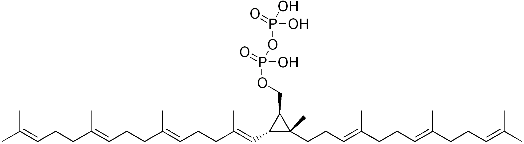 chemical structure of prephytoene pyrophosphate (prephytoene diphosphate)